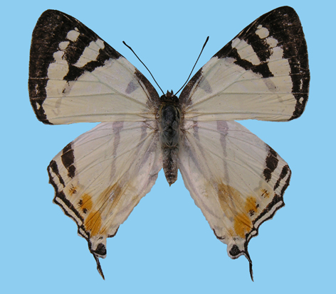 Dodona deodata ohtsukai, female upperside